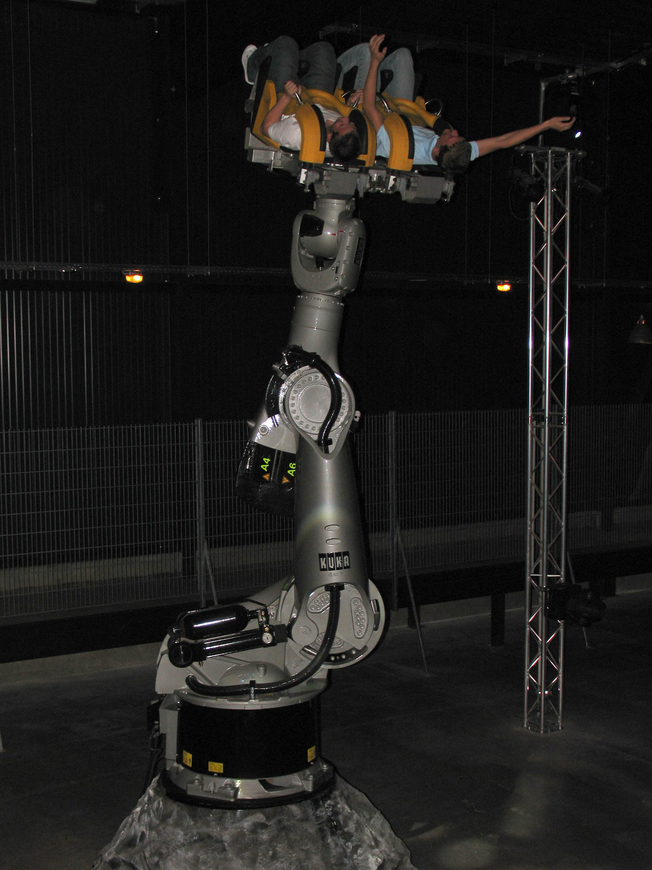 Robocoaster at Legoland Germany